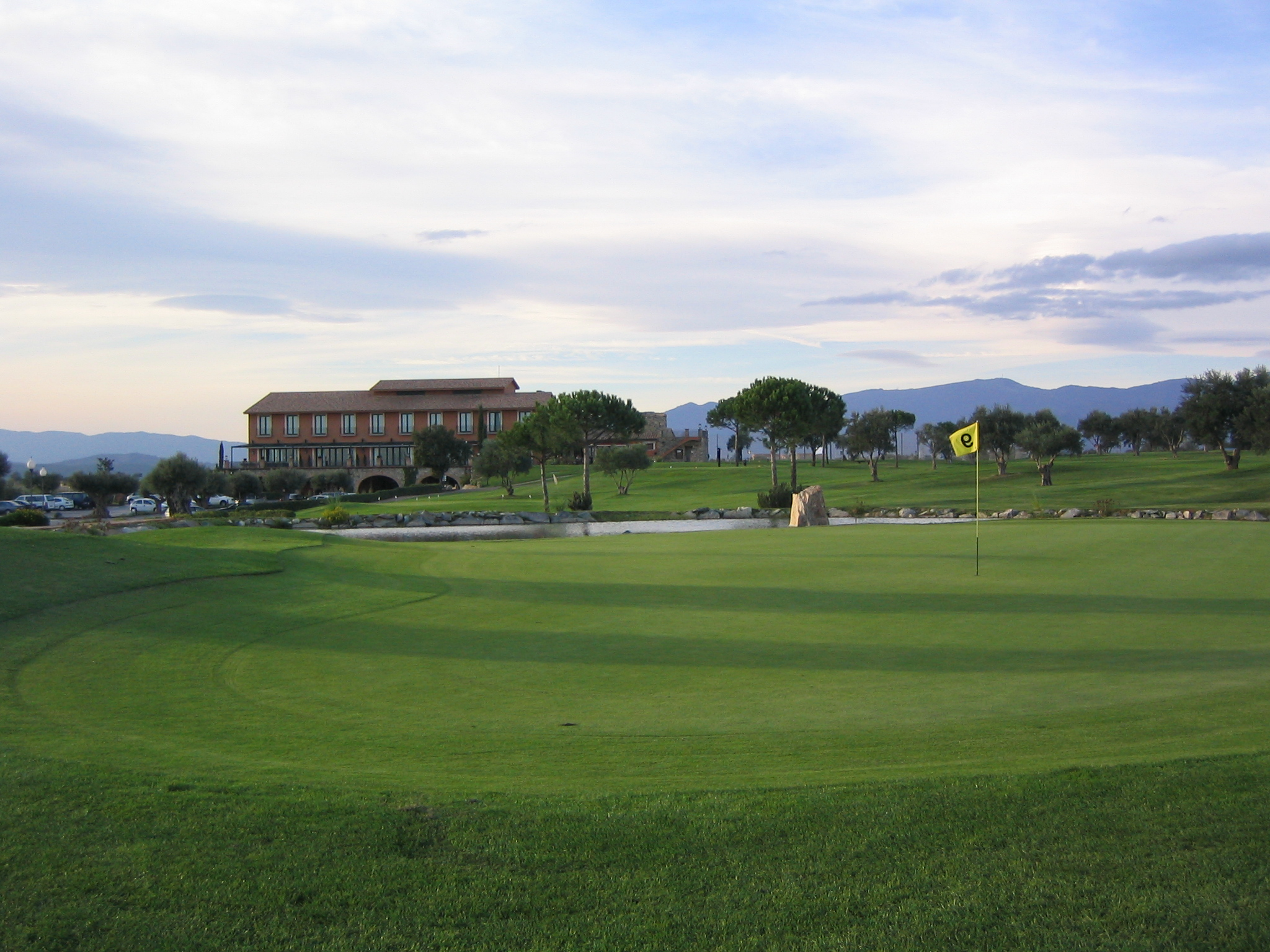 Hole 9 at Peralada Golf Resort in the Costa Brava, Catalonia, Spain.